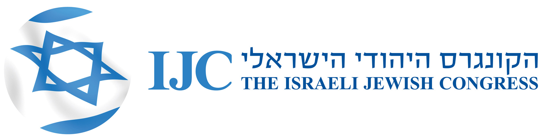 Logo of the Israeli Jewish Congress